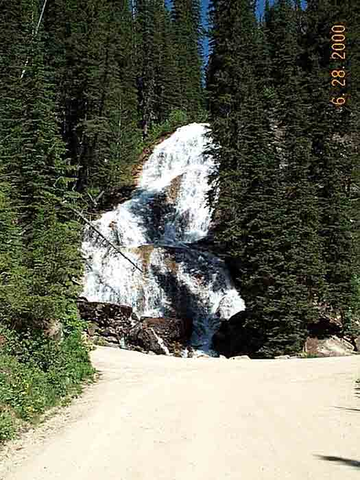 Skalkaho Falls, Bitterroot National Forest, in west central Montana